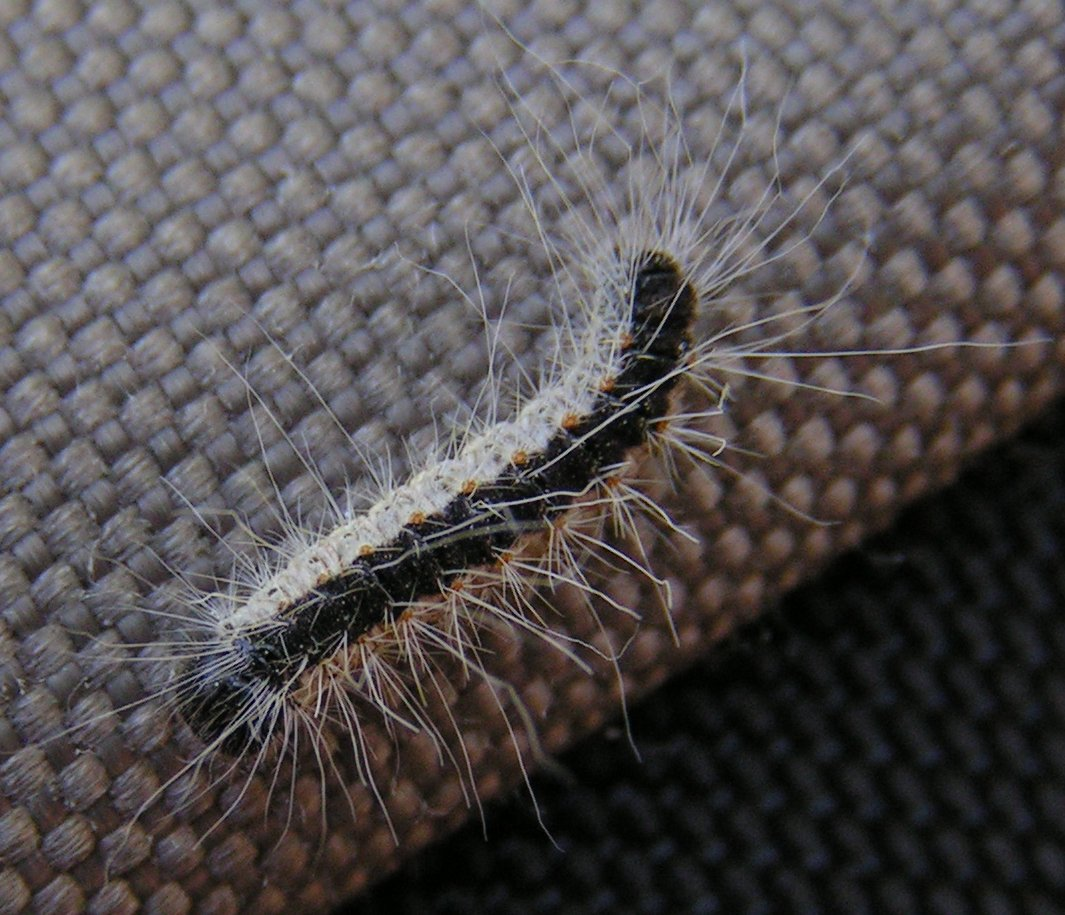 Caterpillar of Thaumetopoea processionea, found in Berlin, Germany